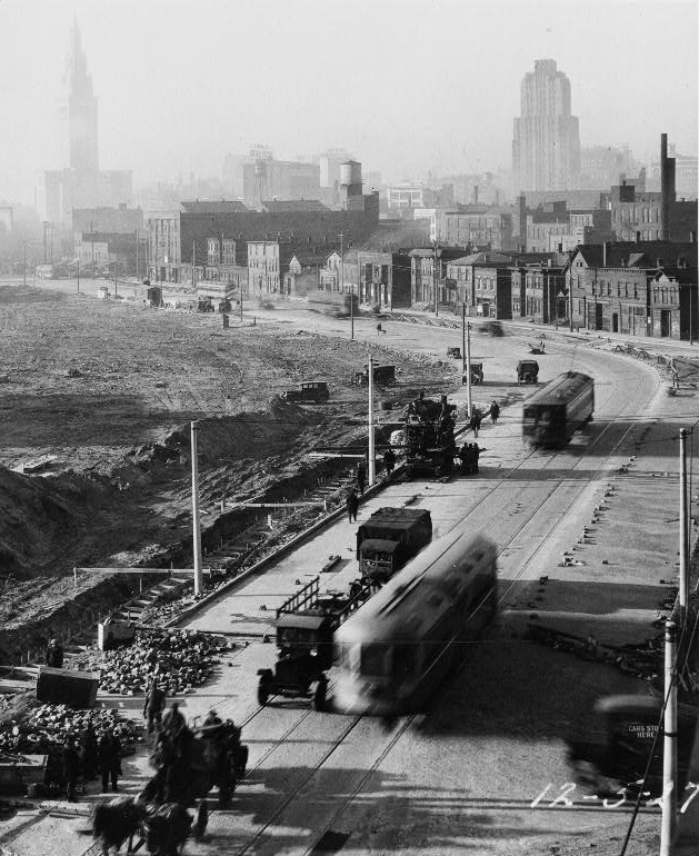 Shaker Rapid Transit Tracks on Cleveland city streets, East Side, prior to opening of sub-grade tracks into Terminal Tower project, 1927. - Shaker Heights Rapid Transit Line, Cleveland, Cuyahoga County, OH